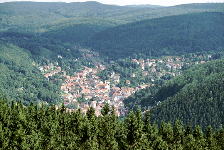 Ruhla, the central part.